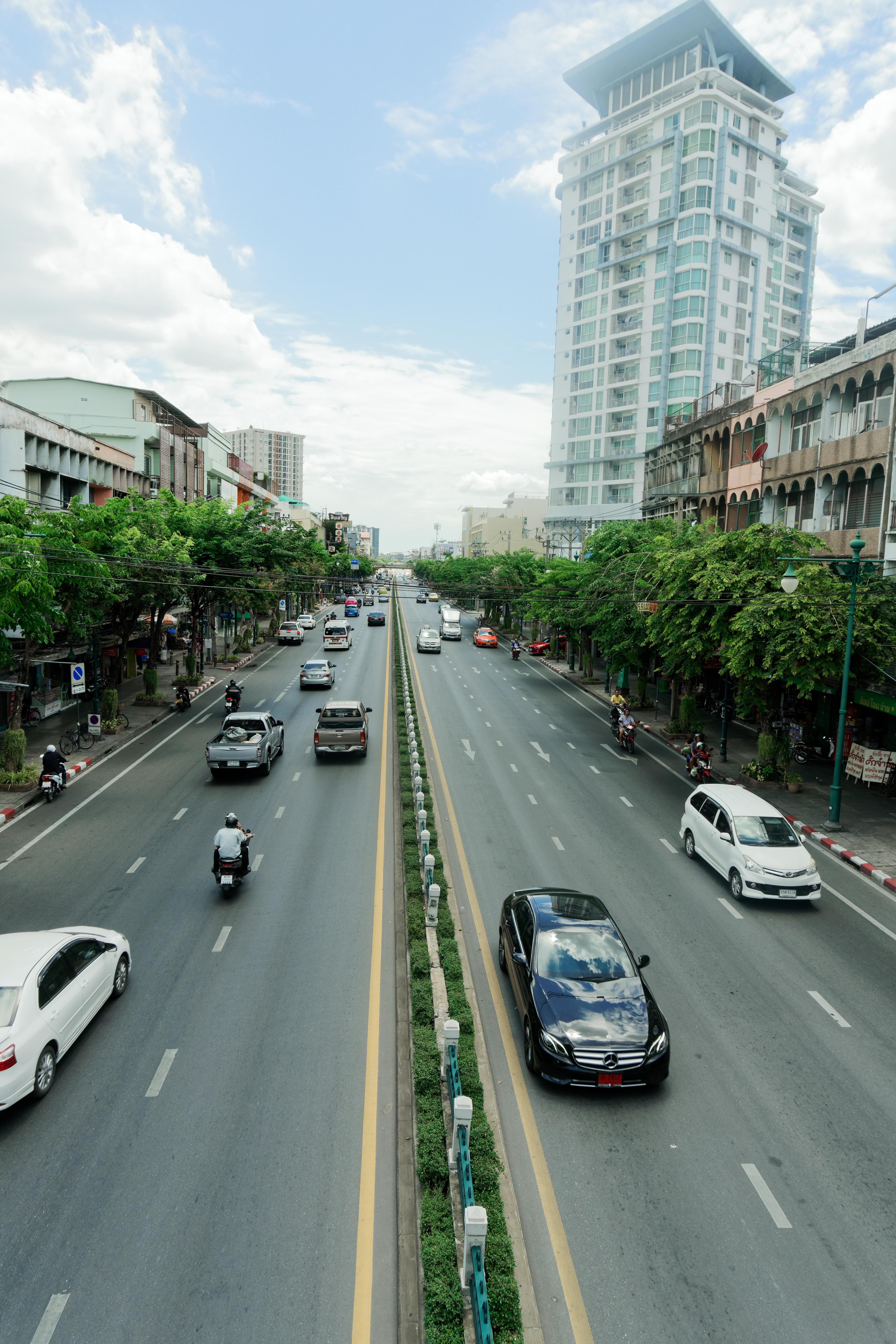 Intharaphitak rd. (View toward Phet Kasem rd.) This image was shot from the pedestrian bridge near king Taksin's statue roundabout.